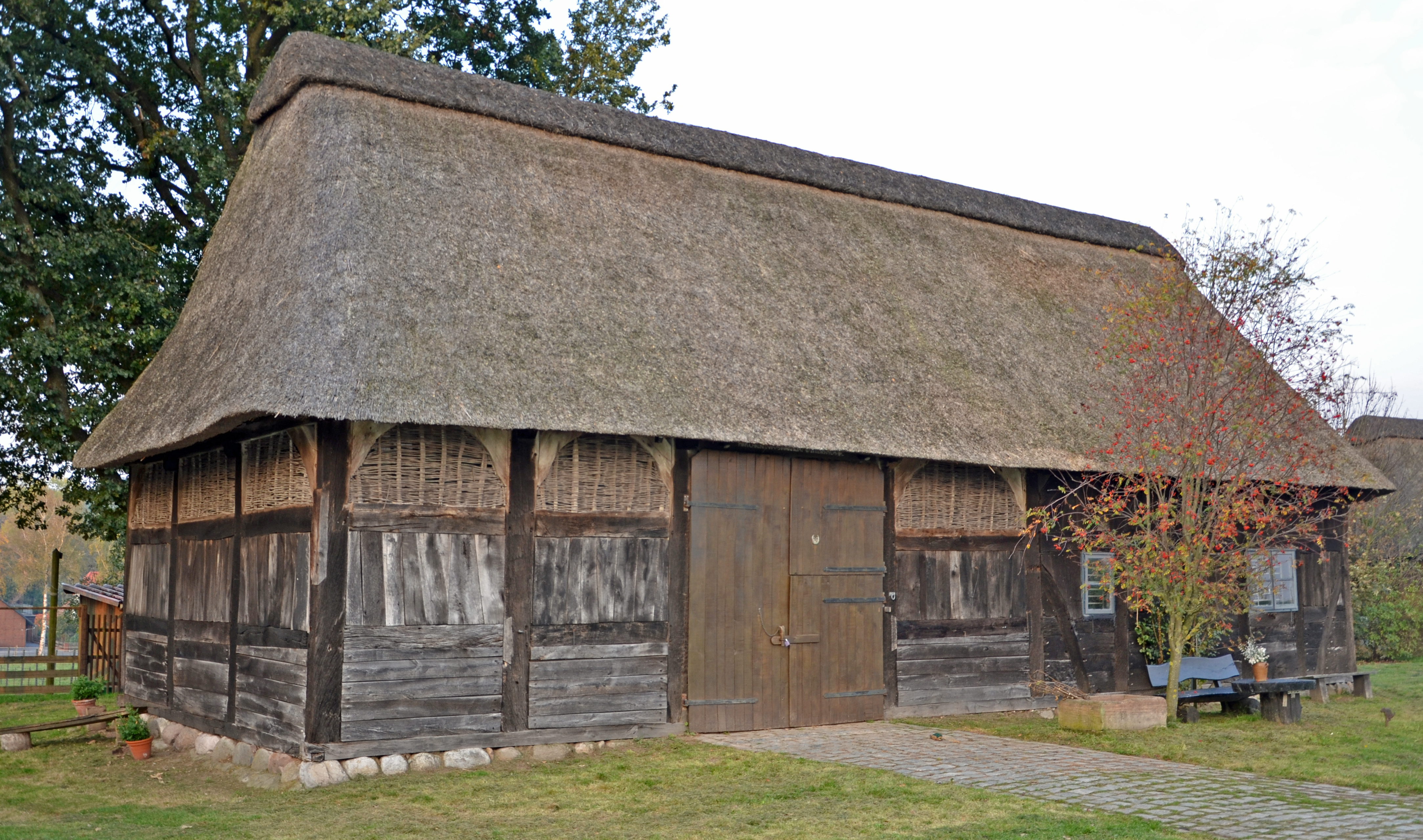 Culturla heritage monument in Bassum Neubruchhhausen barn